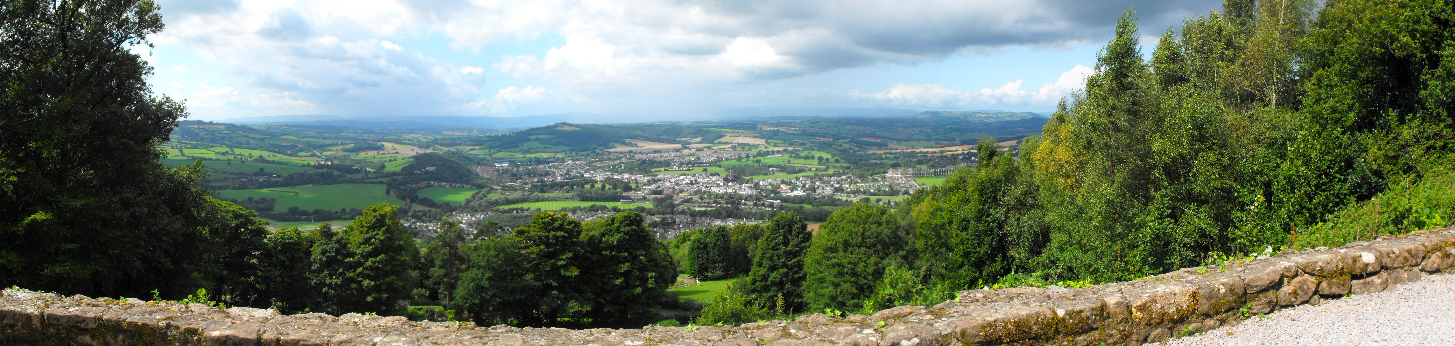 View of Monmouth from The Kymin hill